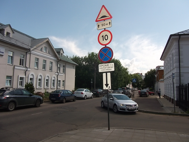 Улица Терешковой (Ярославль)